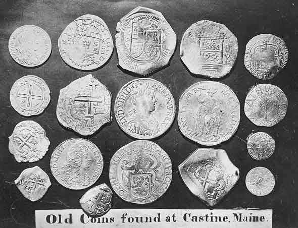 This is a photograph of a portion of the Castine Hoard.